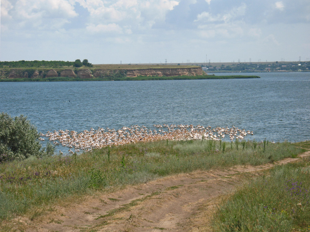 Berezan Estuary. Sasyk Bay is in the foreground, Berezan Bay in the background